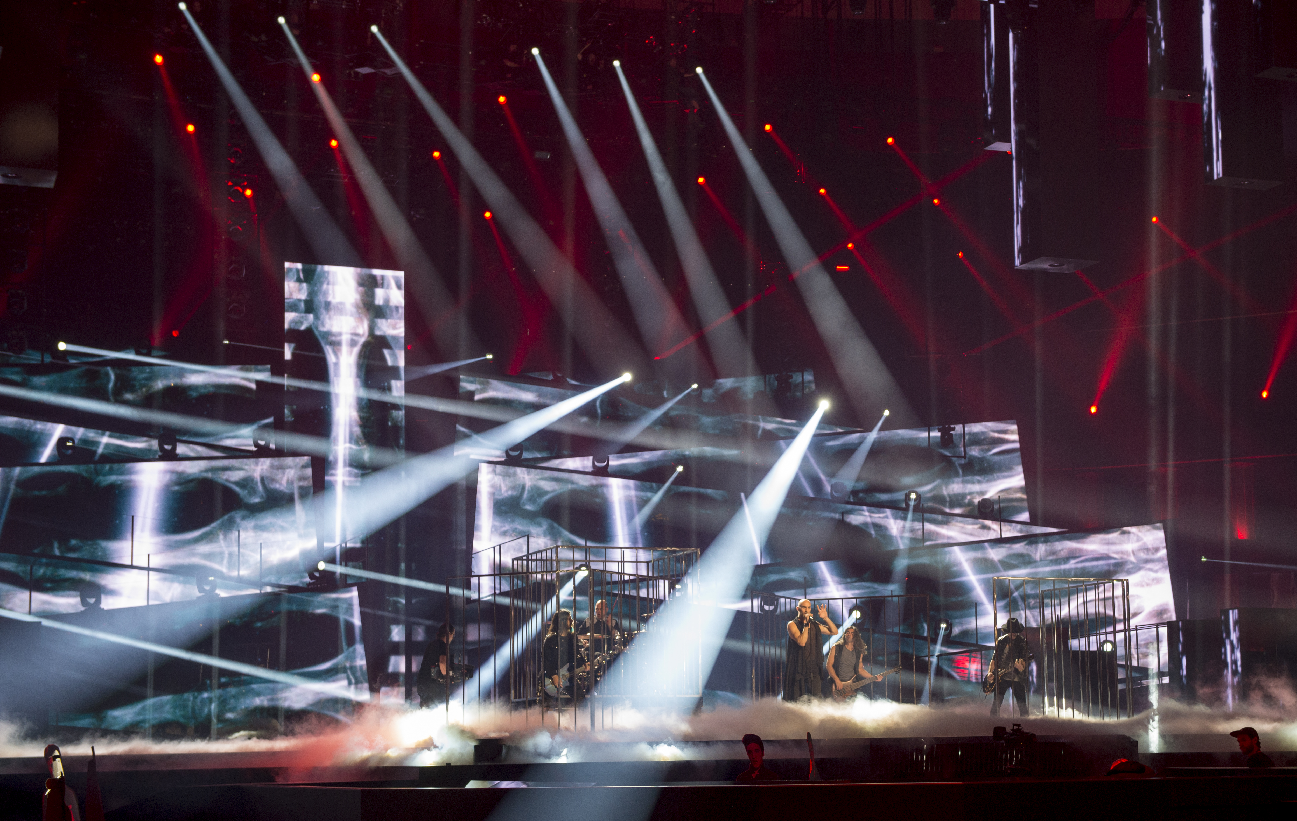 Minus One representing Cyprus with the song "Alter Ego" during a rehearsal before the first semi final of the Eurovision Song Contest 2016 in Stockholm. (Help translate this text)